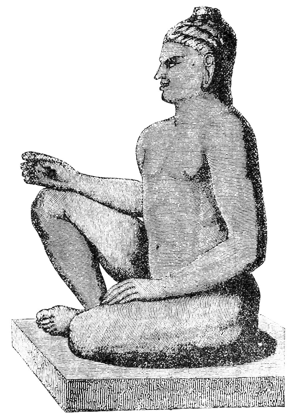 Statue of the leprous king founder of Angkor Wat